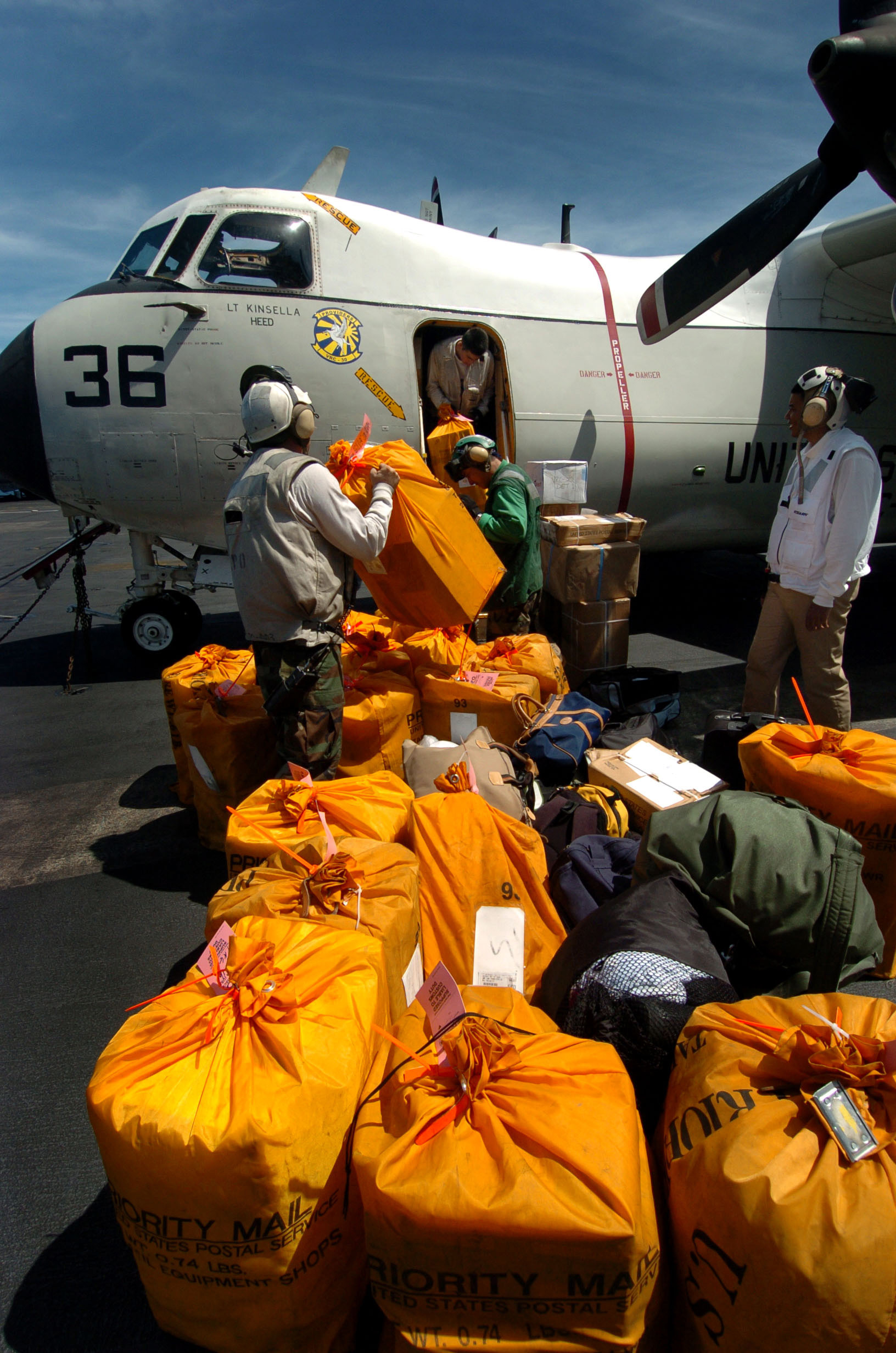 U.S. Navy sailors work to load bags of mail into a C-2 Greyhound aircraft on the flight deck of the USS John C. Stennis (CVN 74) on Aug. 27, 2004. Stennis and her embarked Carrier Air Wing 14 are conducting exercises at sea on a regularly scheduled deployment. The Greyhound, from Fleet Logistic Support Squadron 30, is responsible for the delivery of passengers, cargo and mail to the ship in support of the strike group.